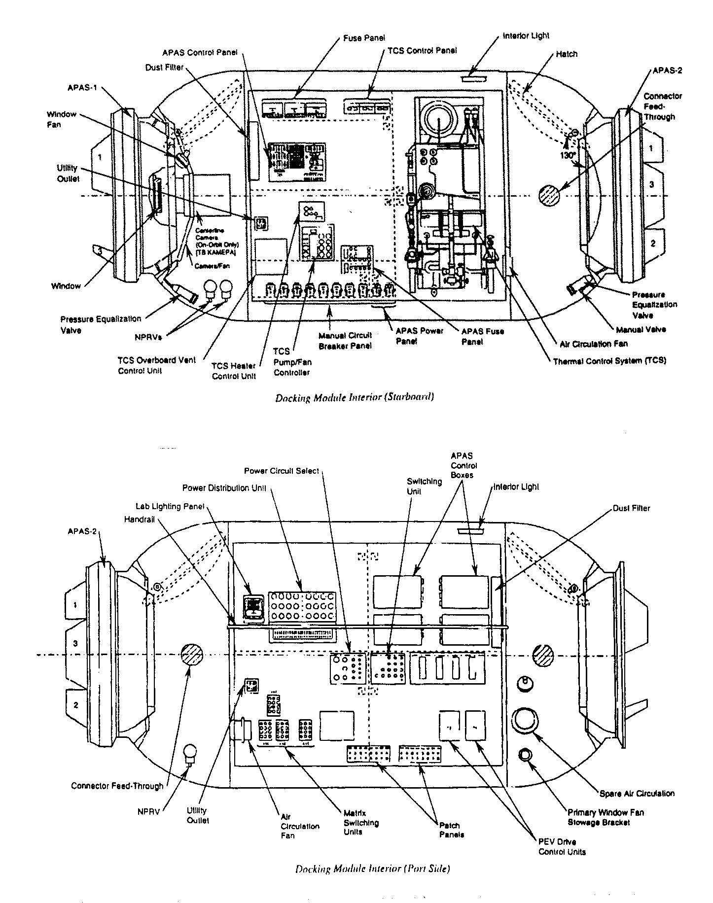 Docking Module cutaway from NASA STS-74 original Presskit